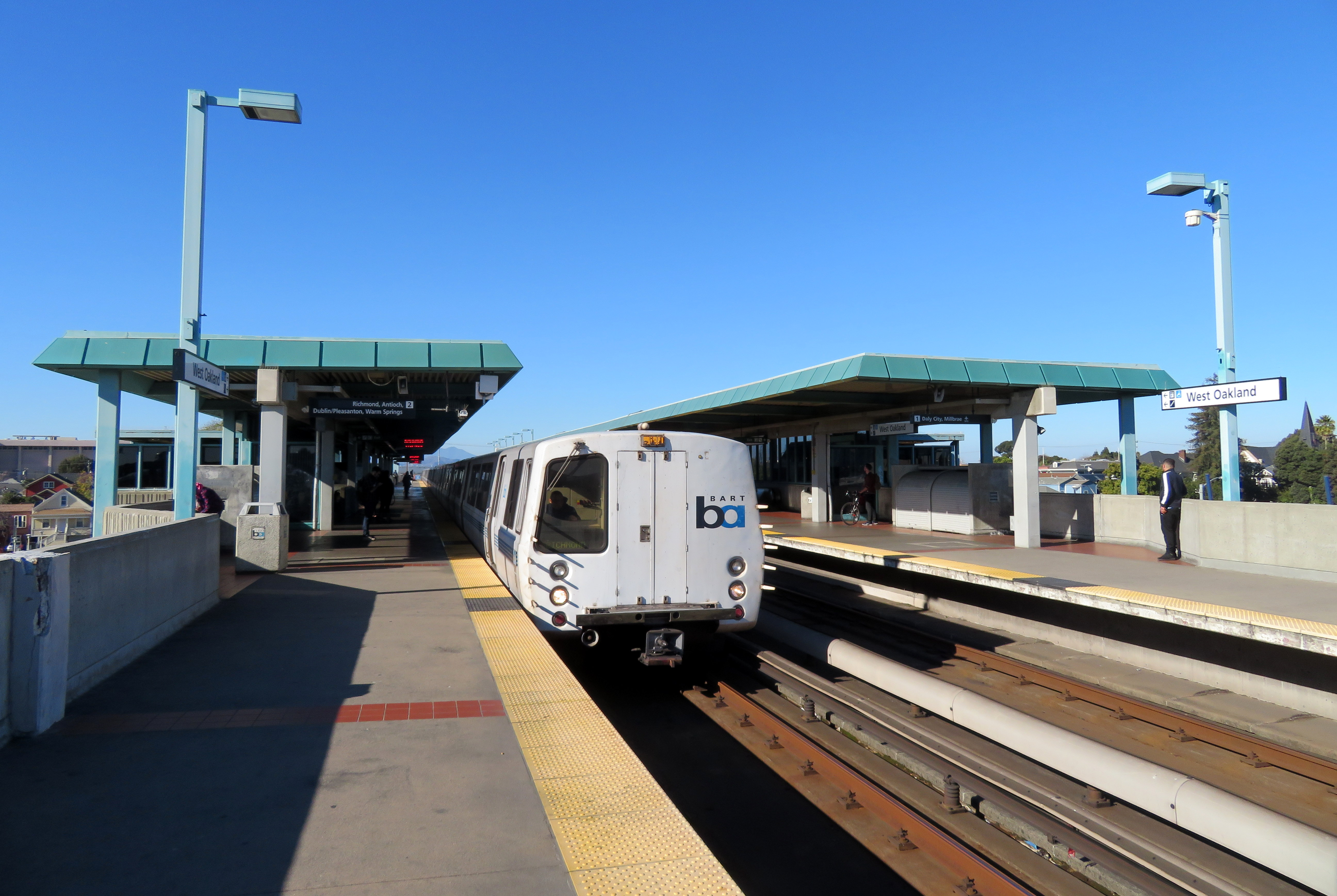 A BART train at West Oakland station in December 2018